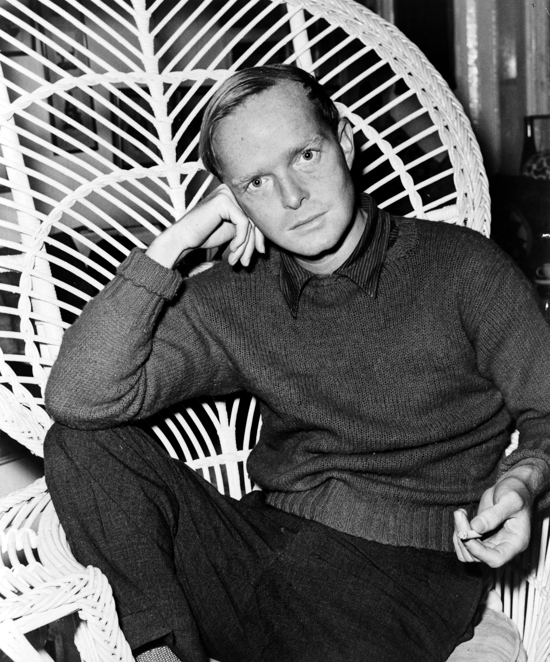 Truman Capote, half-length portrait, facing front, seated in a chair, resting head on his right hand, holding cigarette in his left hand / World Telegram & Sun photo by Roger Higgins.